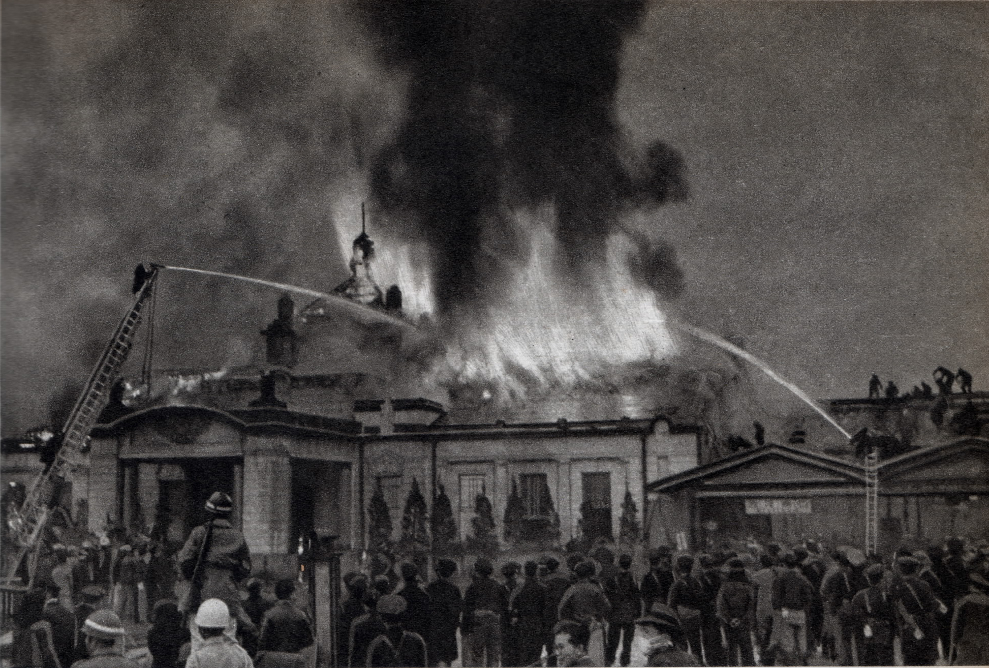 Kyoto station Fire, November 18, 1950. Loc: Kyoto city, Kyoto Prefecture, Japan.